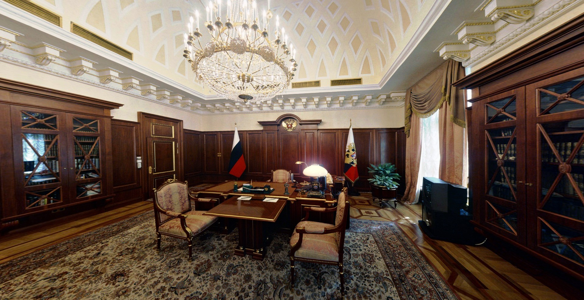 Desk of the President. Senate Palace. Moscow Kremlin